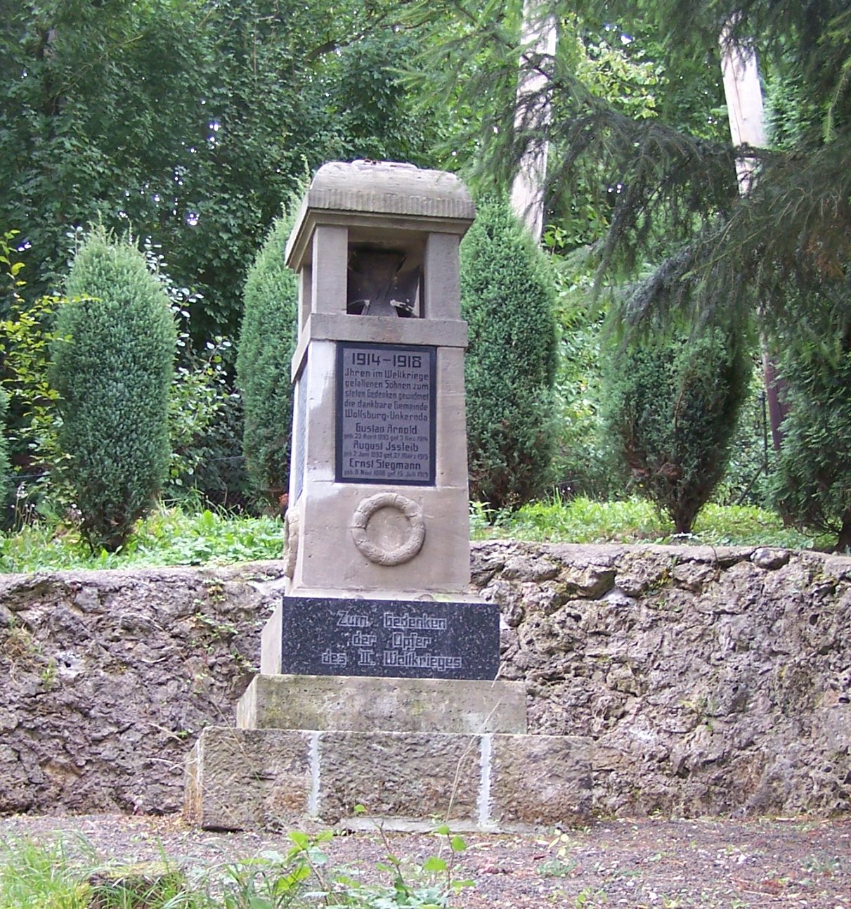 The monument for the victims of the wars in Wolfsburg-Unkeroda.